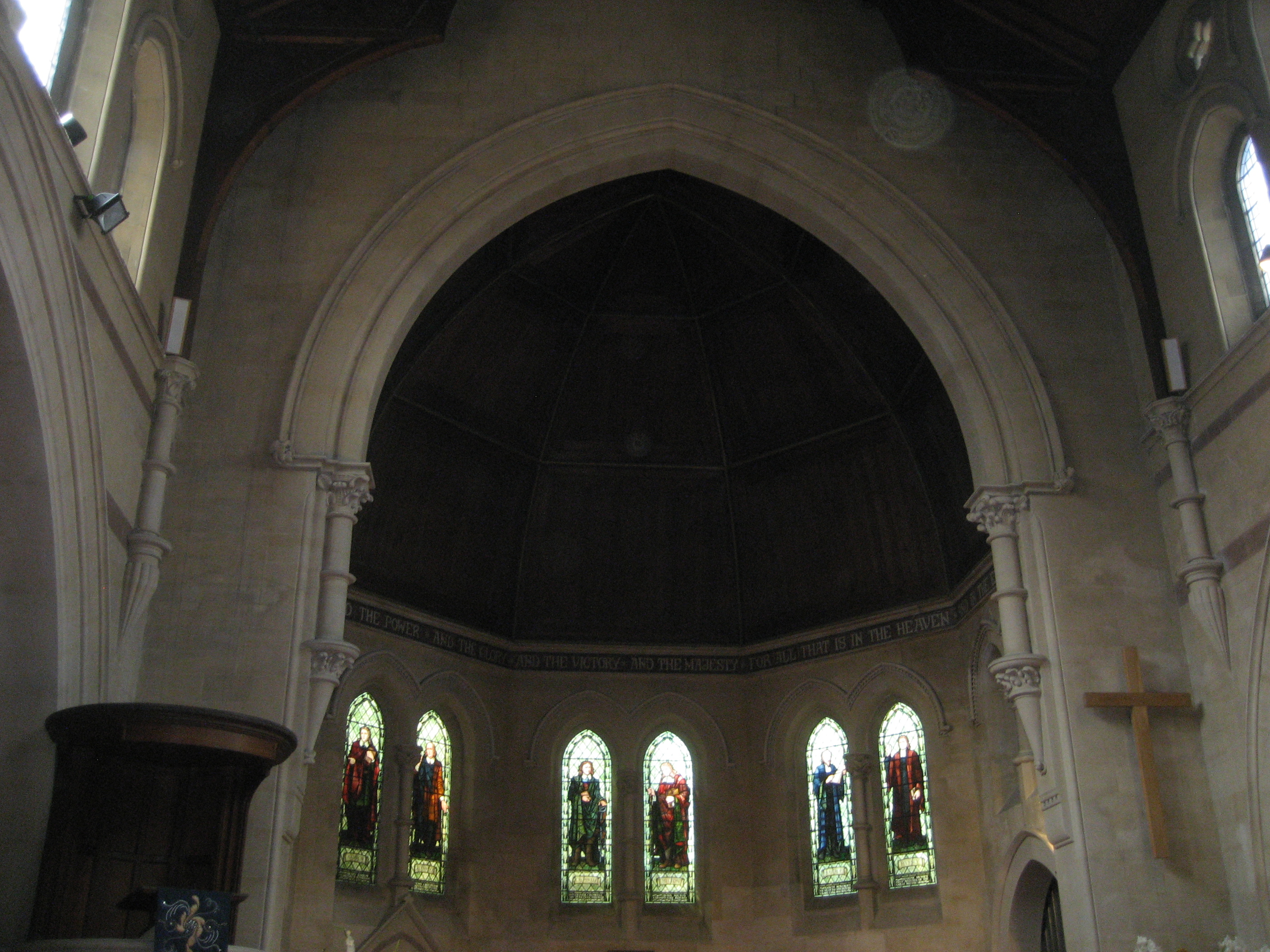 Apse of Emmanuel United Reformed Church, Trumpington Street, Cambridge, England. Commemorated in the stained glass windows, from left to right, are Henry Barrow, John Greenwood, Oliver Cromwell, John Milton, Francis Holcroft and Joseph Hussey.